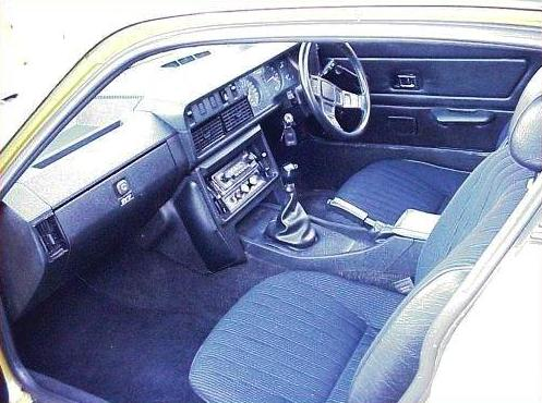 TR7 broudcord interior